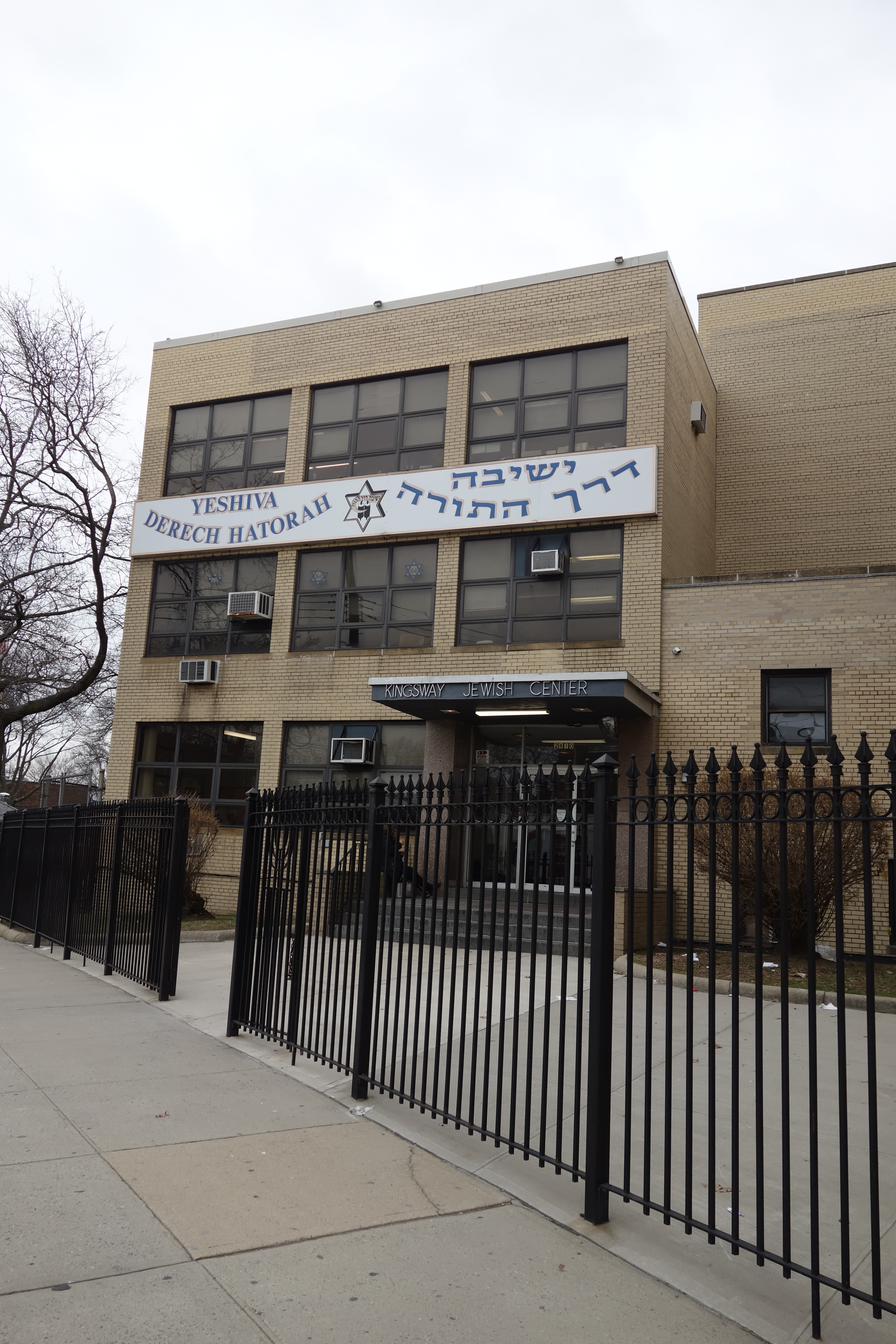 The Yeshiva Derech Hatorah within the Kingsway Jewish Center, at the southwest corner of Nostrand Avenue and Kings Highway in Midwood, Brooklyn.